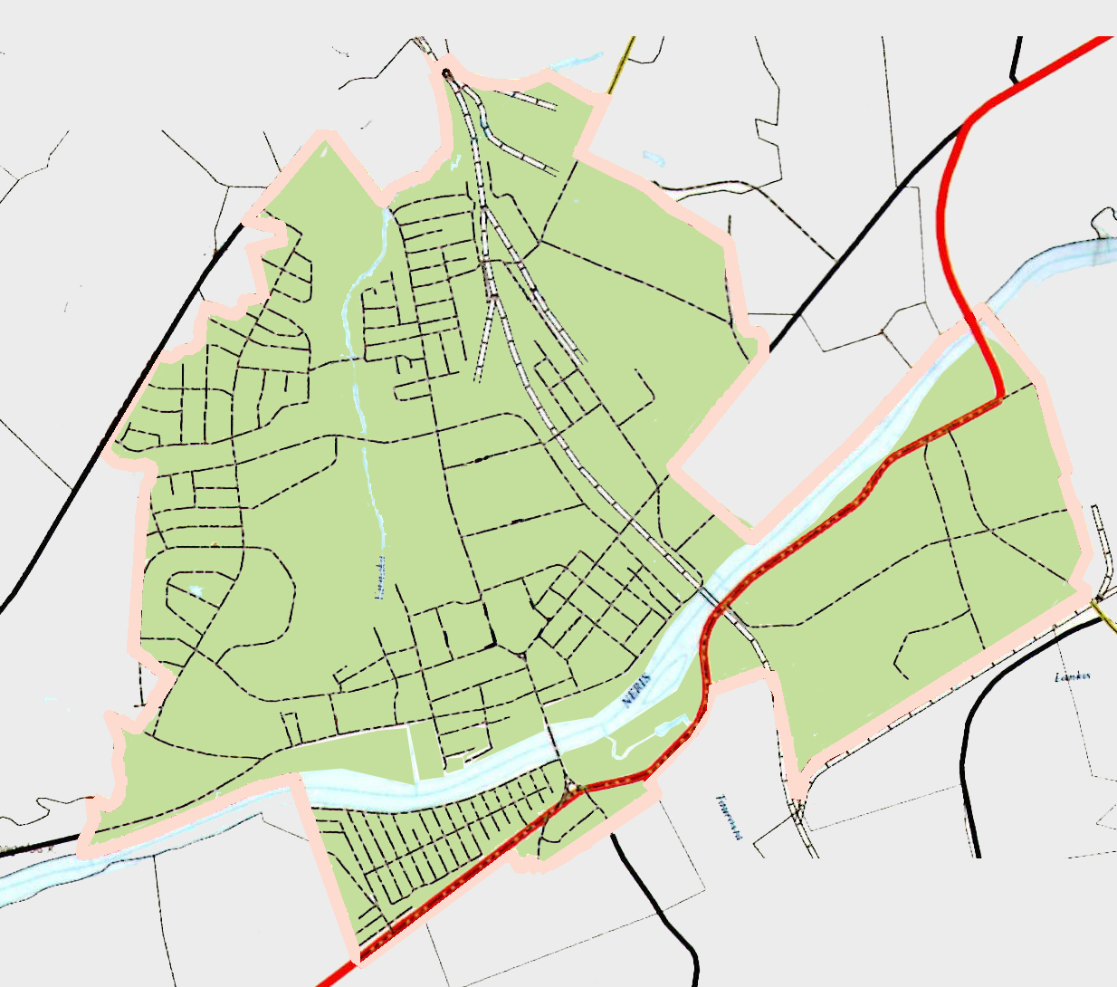 Map of the city